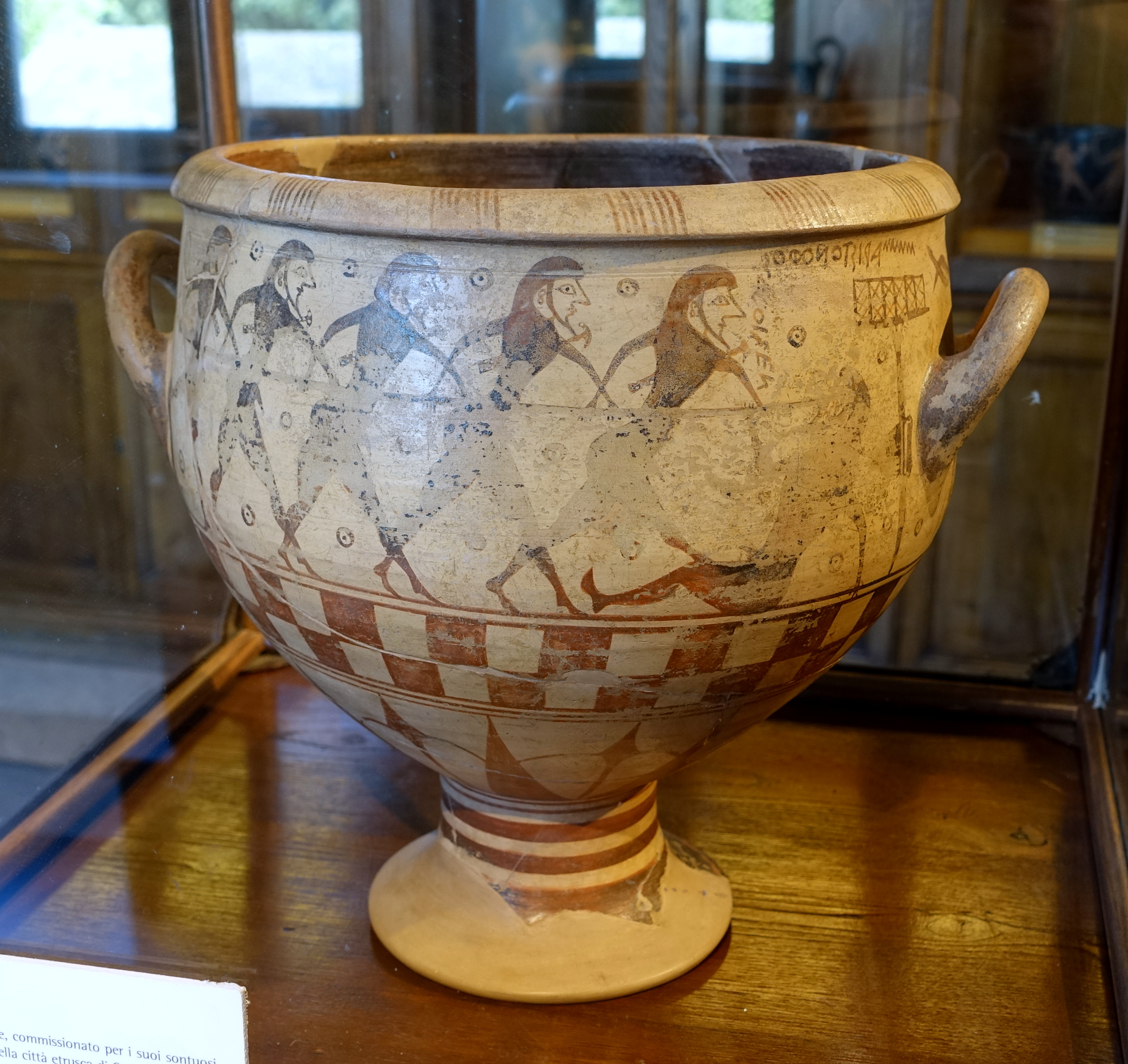 Aristonothos krater, Greek, from Caere (Cerveteri), ceramic, 2nd quarter of 7th century BC - Musei Capitolini - Rome, Italy.